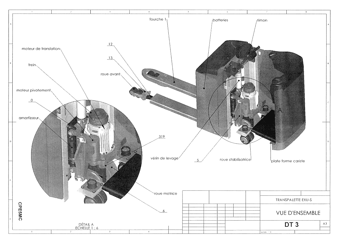 Still EXU-S 22 pallet jack: assembly view.